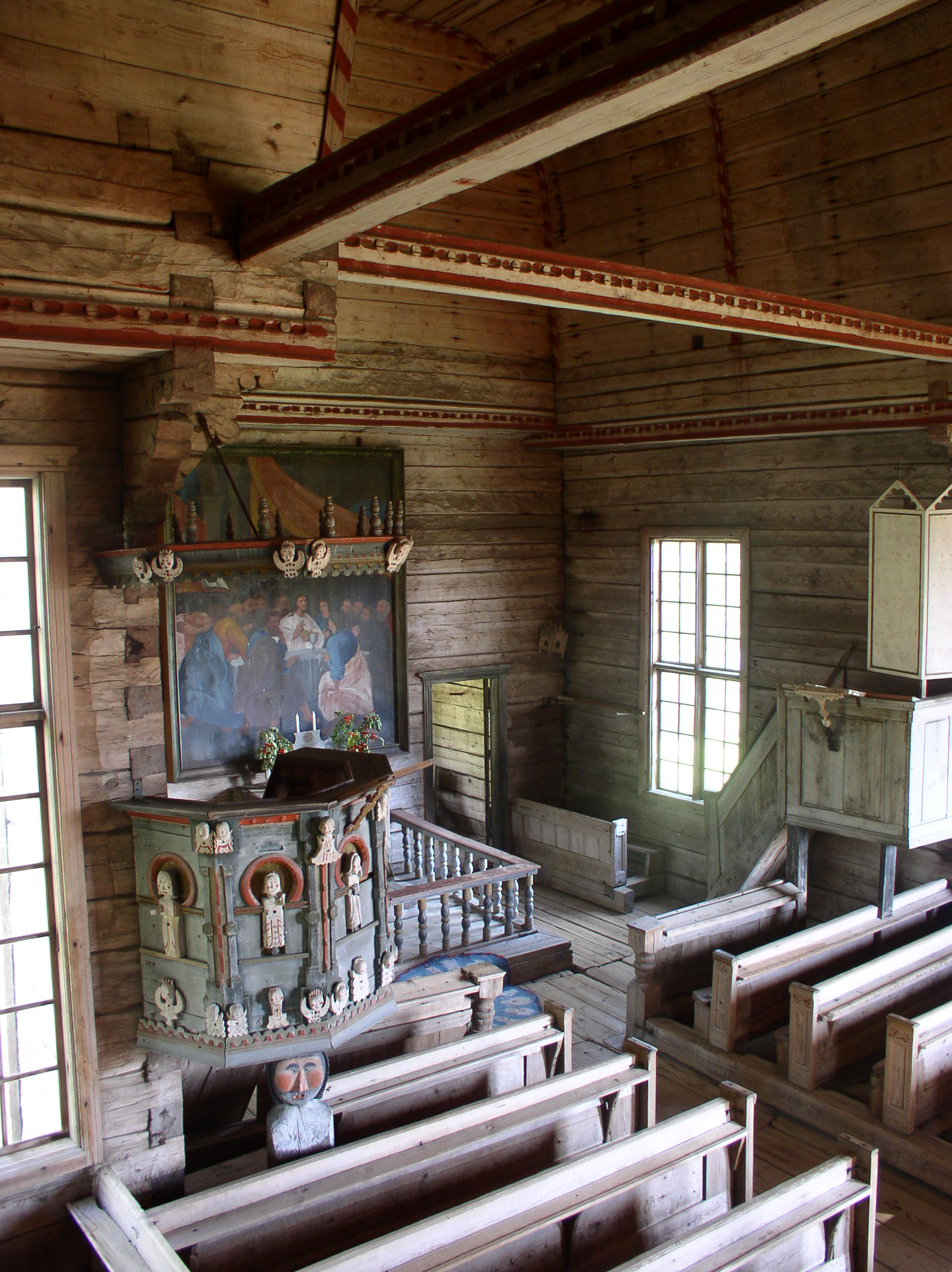 Petäjävesi Old Church, Finland, interior, pulpit, choir, UNESCO World heritage